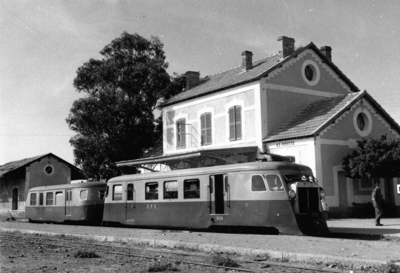 Billard Railcar A 150 D No.111 of CFC at L'Ile Rousse.